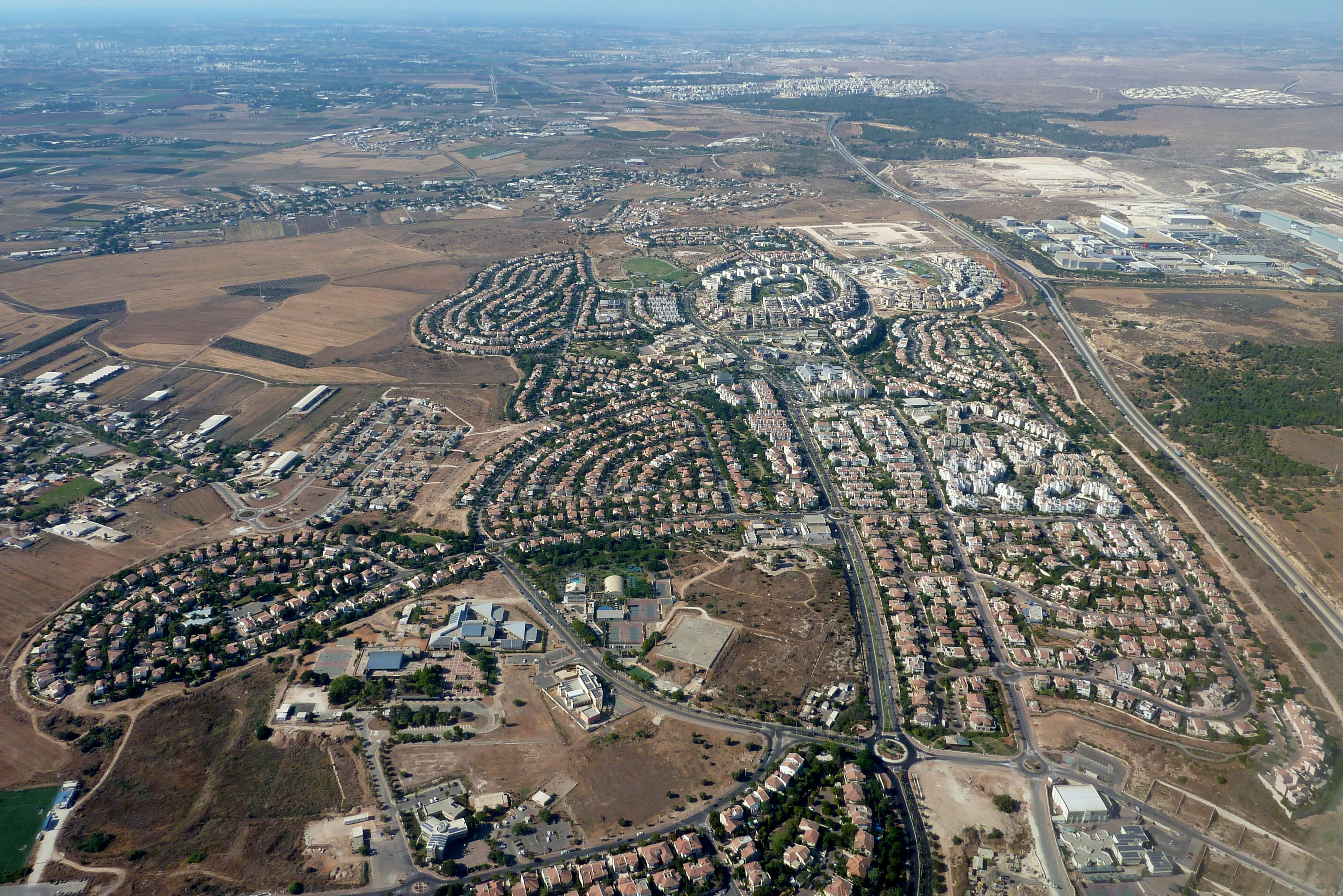 Shoham, Israel. Aerial photograph